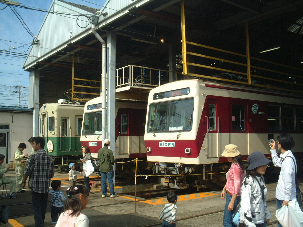 Eizan Electric Railway Shugakuin Depot. Open for public as "Eiden Festival"